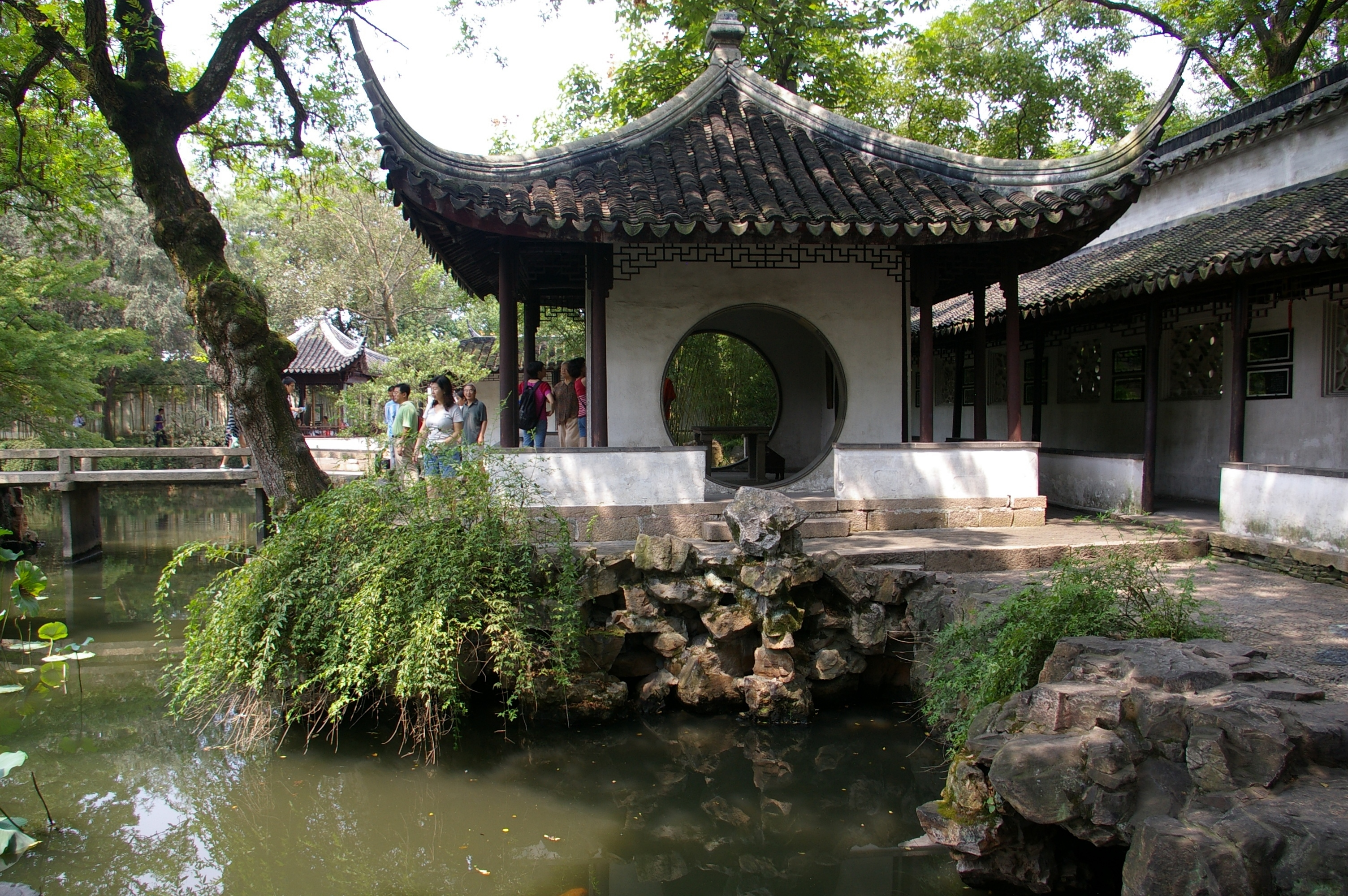 Humble Administrator's Garden in Suzhou